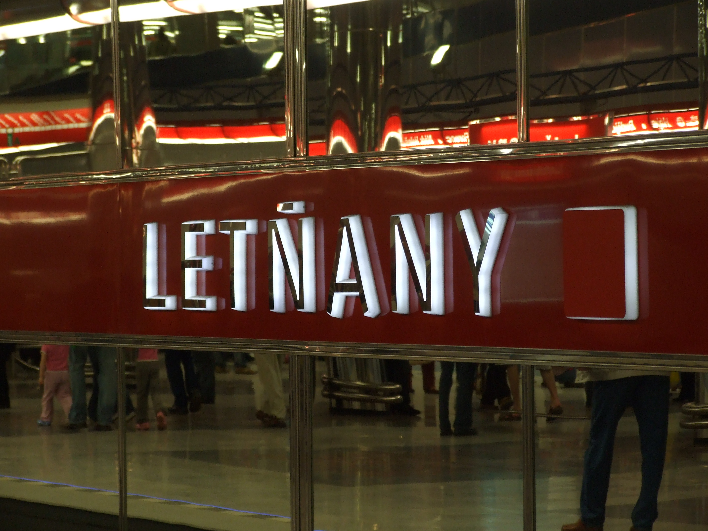 Letňany metro station in Prague, several hours after opening for publichelp